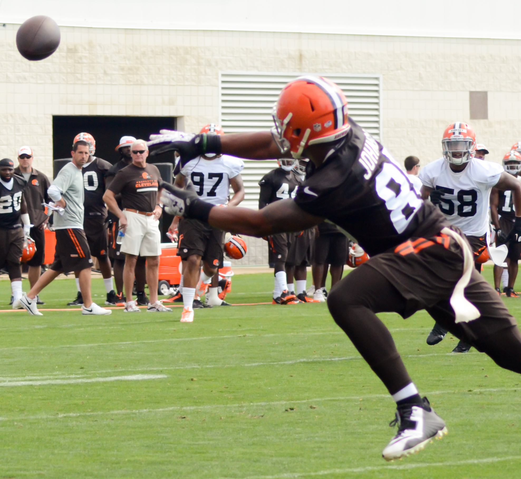 Charles Johnson at 2014 Browns training camp.